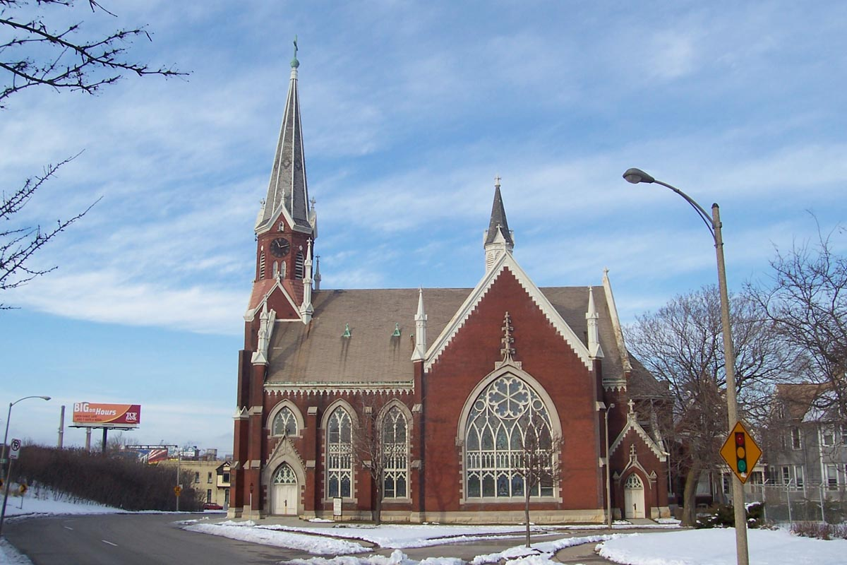 Copyright © 2006 Sulfur St. Stephen Lutheran Church is located in the historic Walker's Point district of Milwaukee, Wisconsin. The building barely survived the cut of the freeway and is best seen while traveling I-43 northbound.